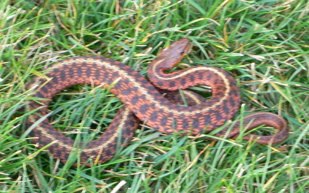 Maritime Garter Snake Thamnophis sirtalis pallidulus in Nova Scotia